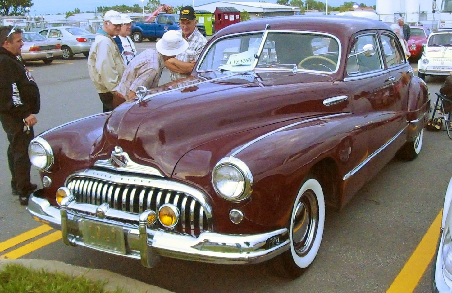 1947 Buick Eight photographed in Montreal, Quebec, Canada at Auto classique VACM mardis 2011.